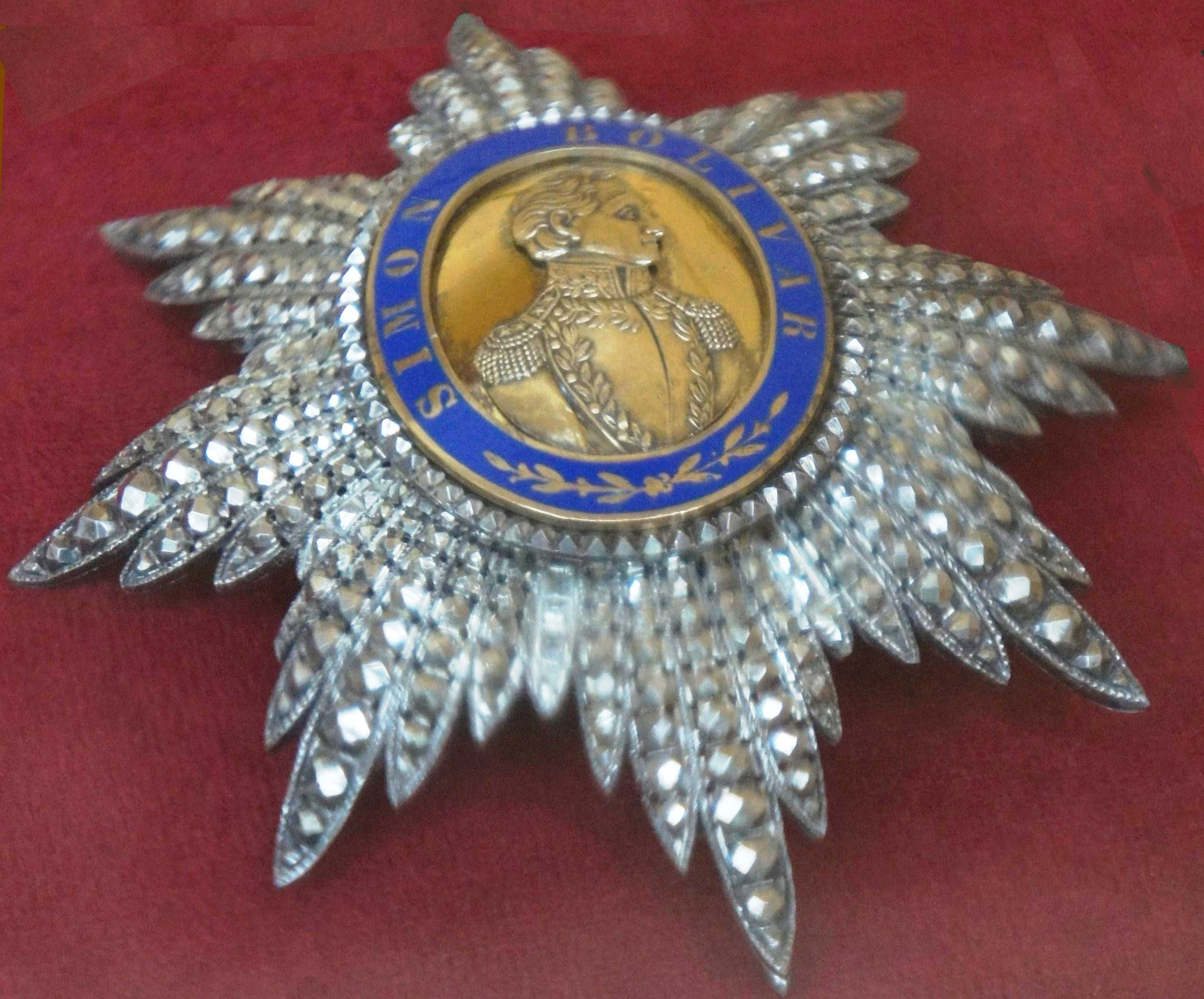 This is the chest badge of the Venezuelan Order of Simón Bolívar that was granted to Léon Bourgeois.